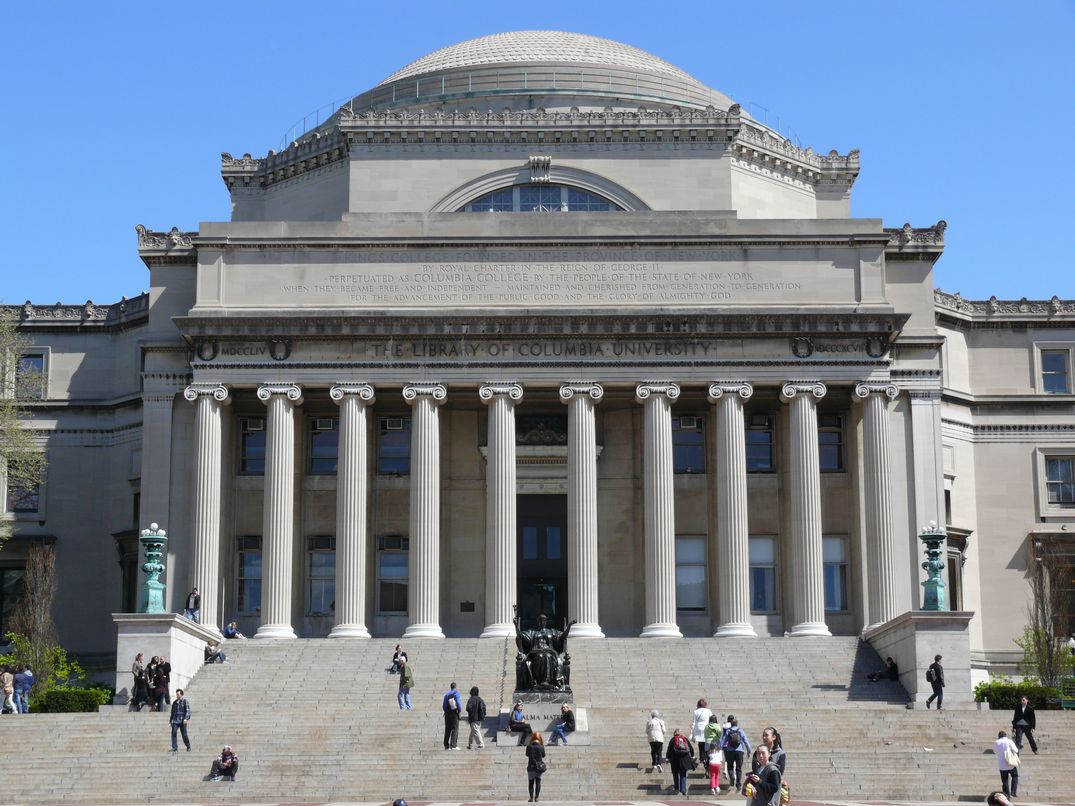 Columbia University College Walk Court Yard